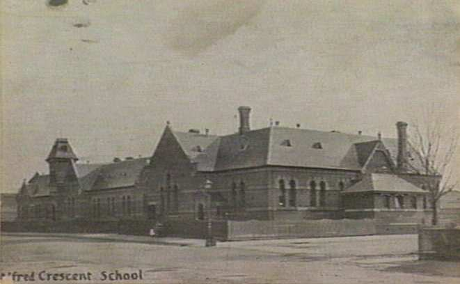 Alfred Crescent School in Fitzroy North, Victoria, around 1908